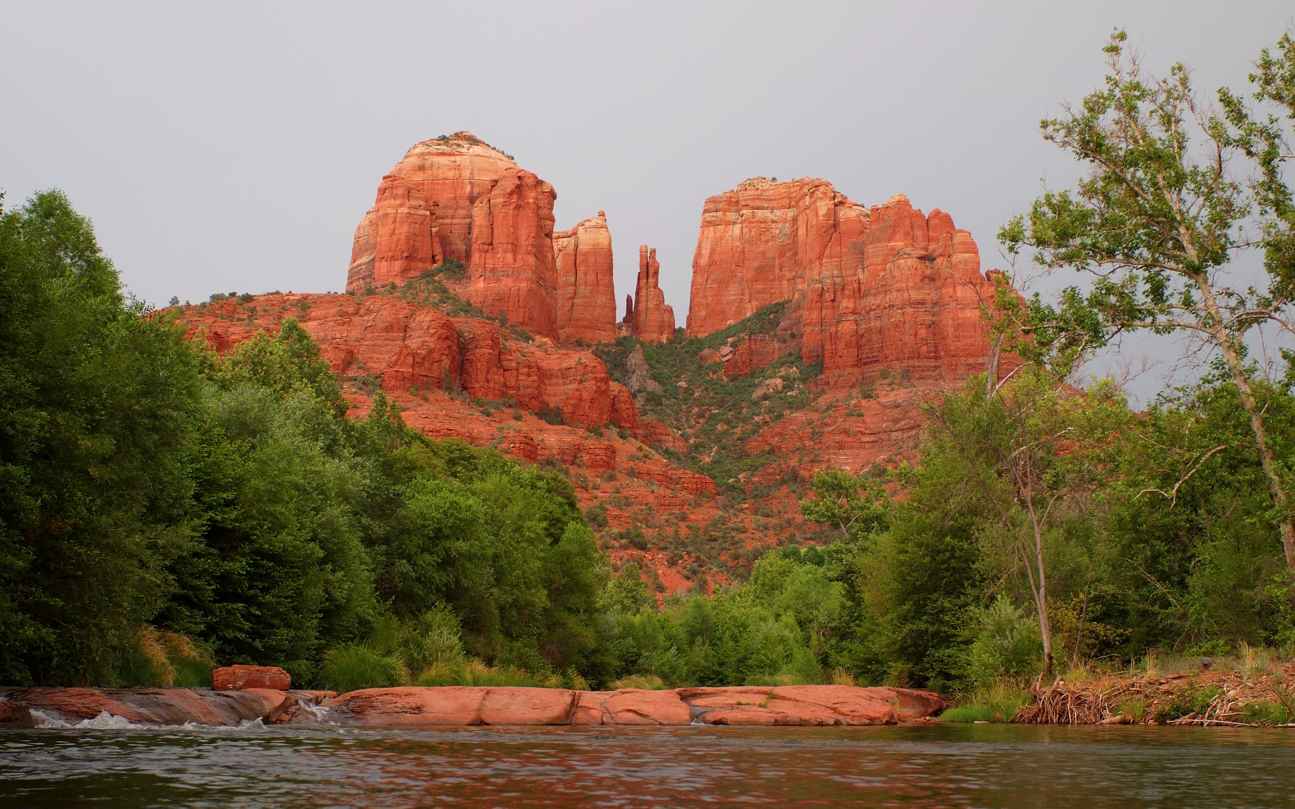 Cathedral Rock as seen looking southeast from Oak Creek near Red Rock Crossing in Sedona. Photo taken with an Olympus E-P1 in Coconino County, AZ, USA. Cropping and post-processing performed with The GIMP.